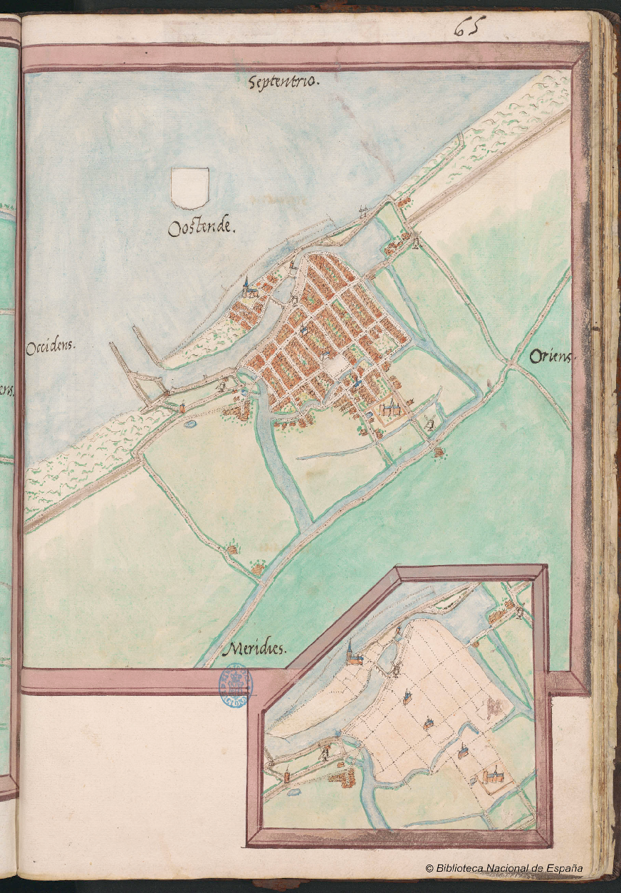 Map of Ostend by Jacob van Deventer, (ca. 1562)